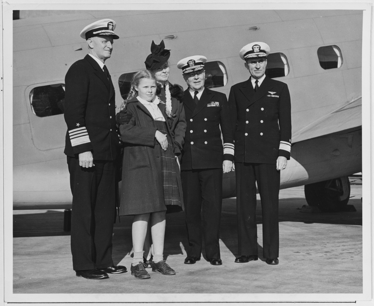 Admiral Chester W. Nimitz, USN, CINCPAC, is shown with Miss Nimitz, Mrs. C. W. Nimitz, Vice Admiral John W. Greenslade, and Rear Admiral William K. Harrill, at the U.S. Naval Air Station, Alameda, California on 9 December 1942, who welcomed the admiral when he made an official trip from Pearl Harbor to California.